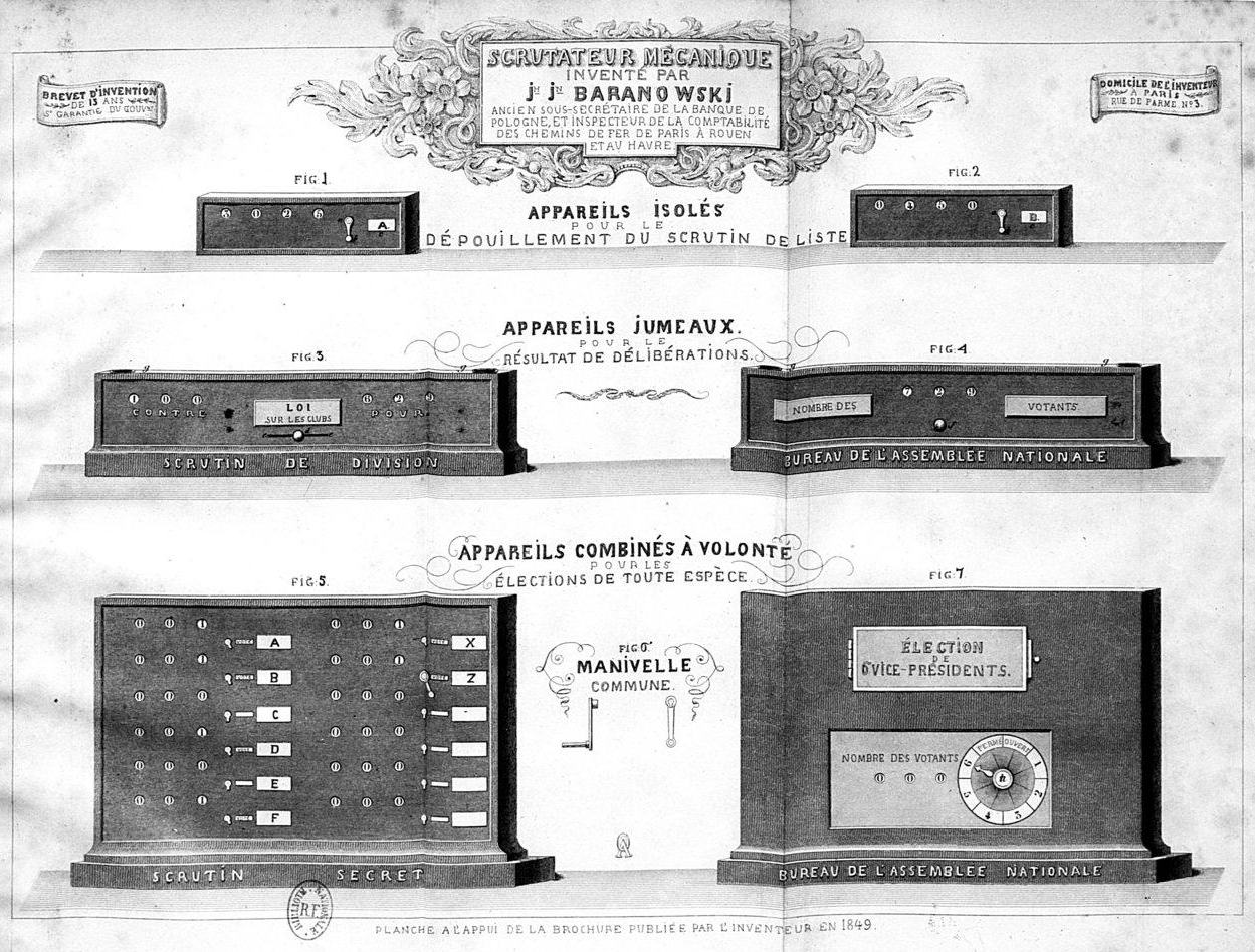 Jan Józef Baranowski election machine.